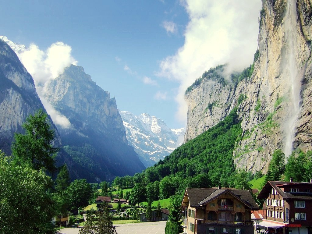 Lauterbrunnen valley in June 2008